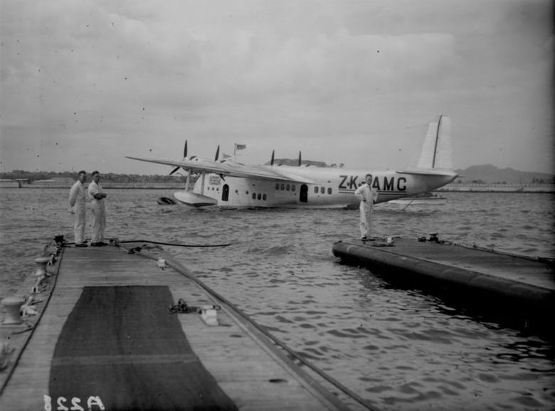 Description: Sunderland Flying Boat Photographer: Unknown Date: Unknown Our reference: AAQT 6539 A228 This photo is from Archives New Zealand It’s from a collection of about 100,000 tourism and publicity photos taken during the twentieth century. The description comes from the publicity caption given to it at the time it was taken. To see more of the collection, visit Archway, and click on the “record” tab. You are welcome to re-use this photo on websites or in publications. Please - - Don’t change the photo e.g. by cropping or re-colouring it. - Display our name and the title and reference information with the photo. If you would like to use this photograph in any other way, please contact us.